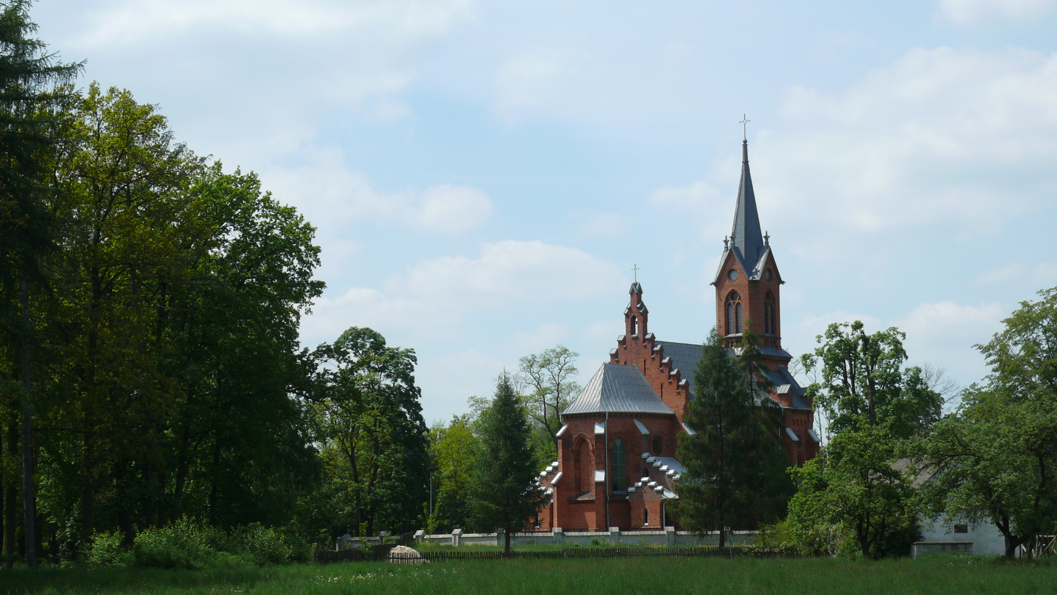 Catholic church in Naglowice